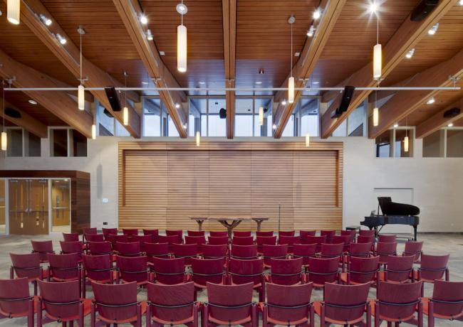 Interior new Chapel elevation